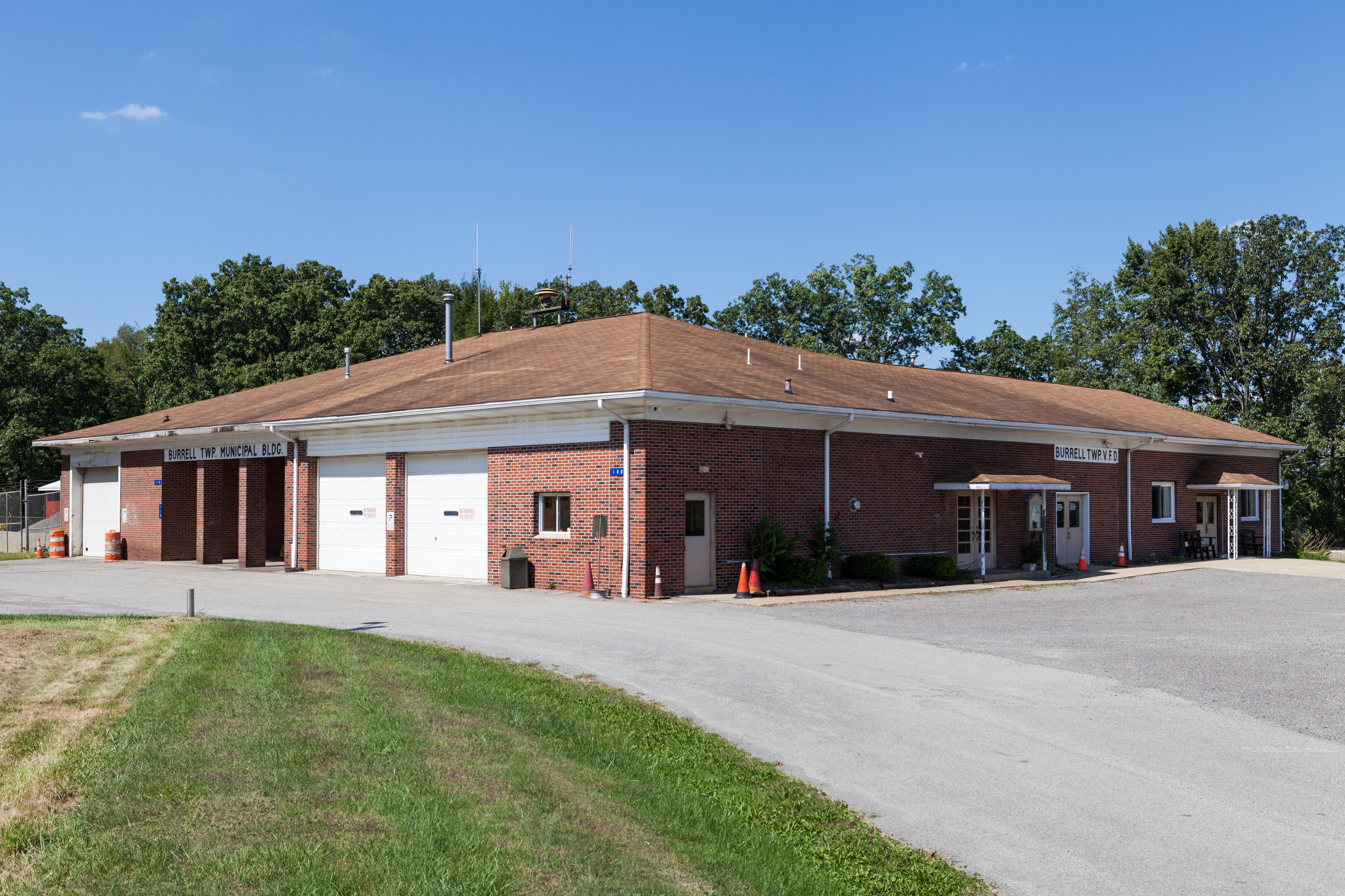 Burrell Township Volunteer Fire Department and Municipal Building in Burrell Township, Armstrong County, Pennsylvania